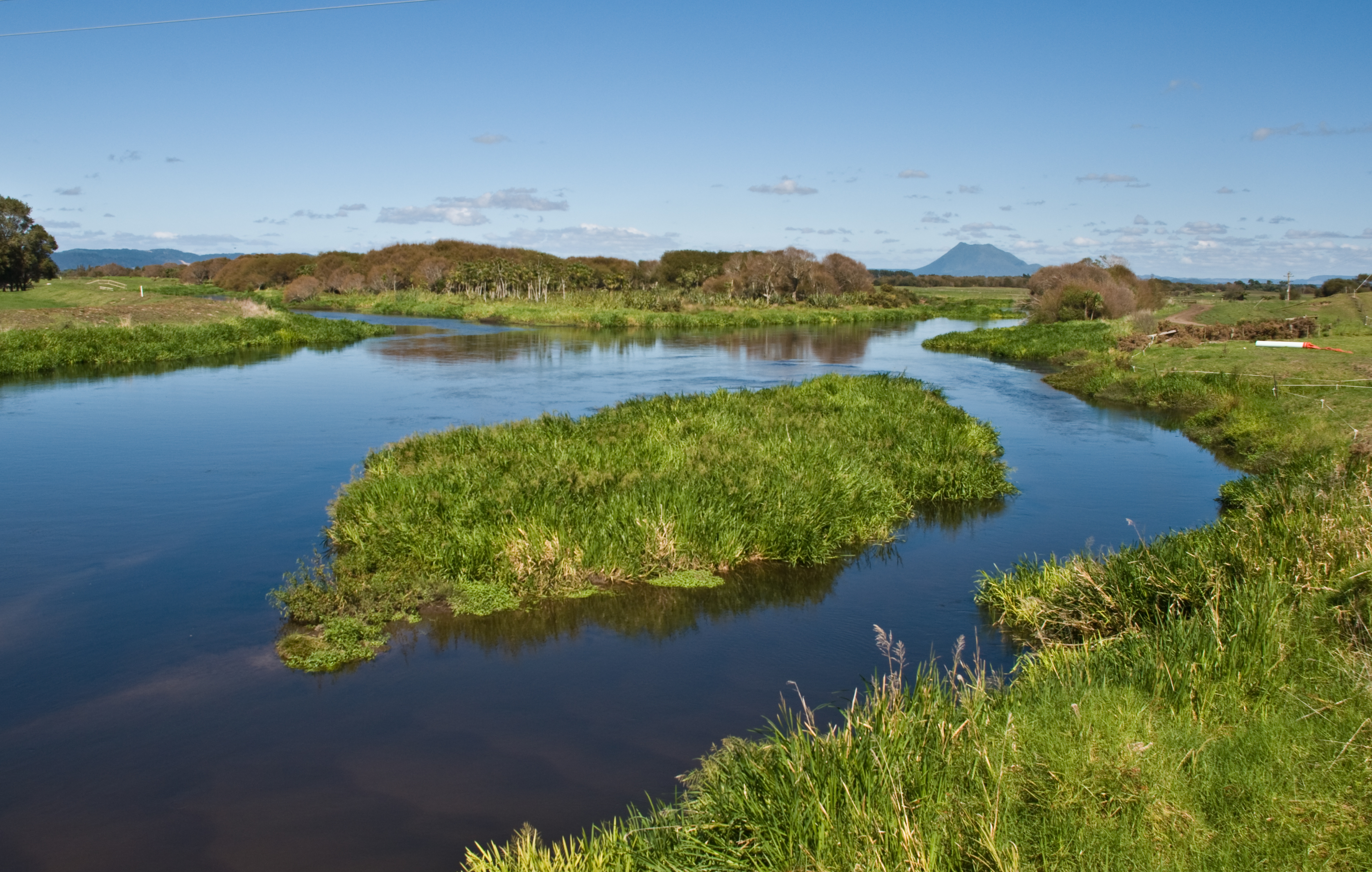 Tarawera River, Bay of Plenty, New Zealand, April 2008.jpg